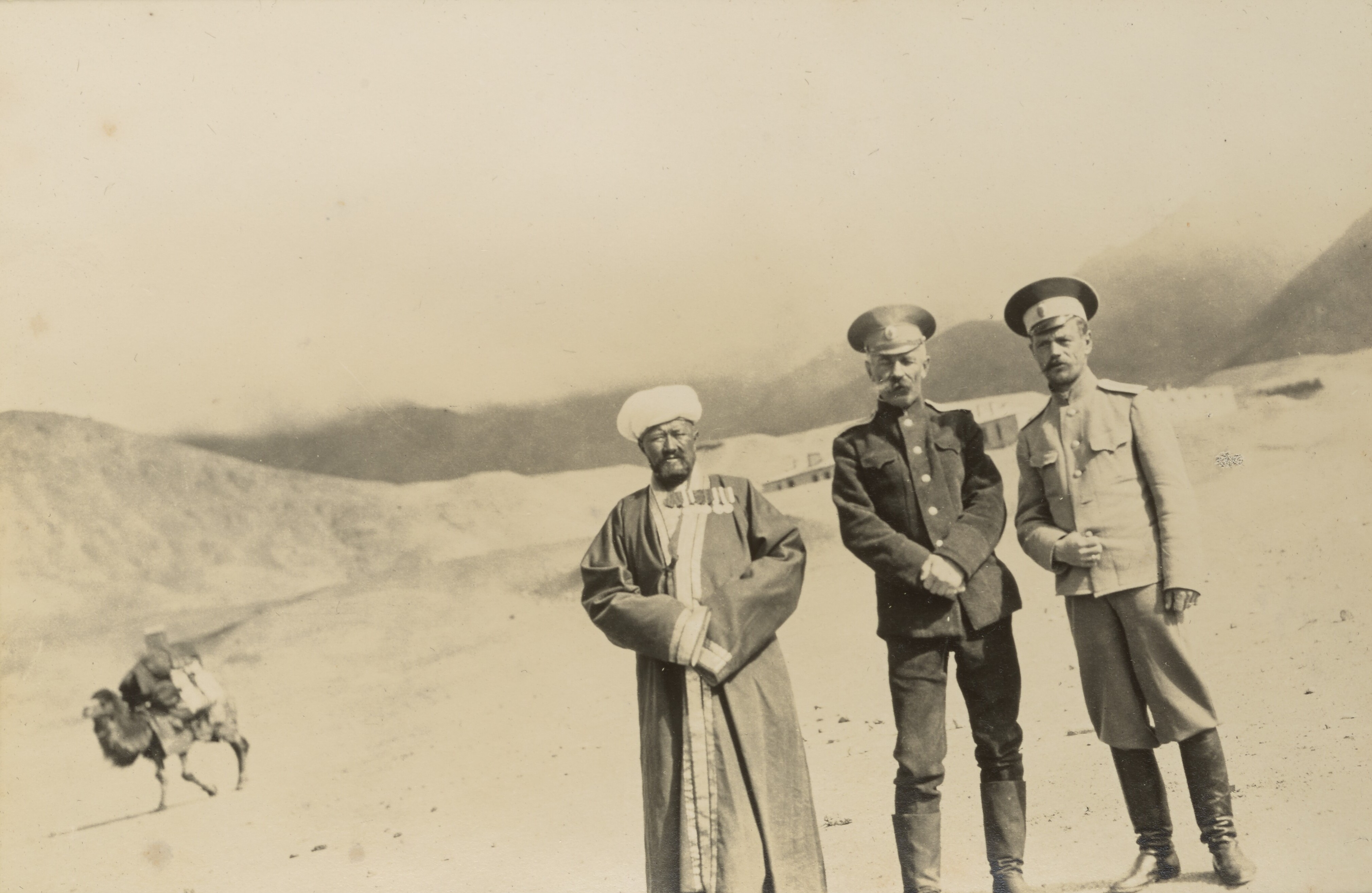 Russian Officials (with Pamirski Post [Today's Murghab, Tajikistan] in the background)